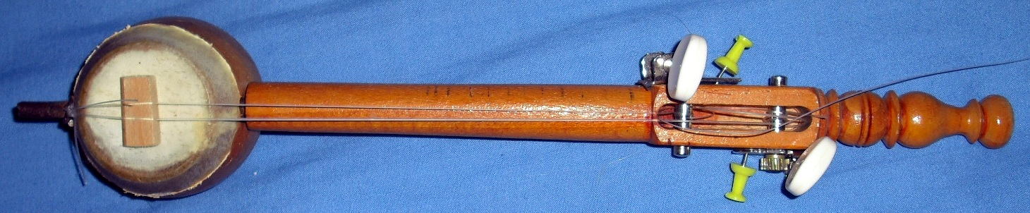 Thumbi.